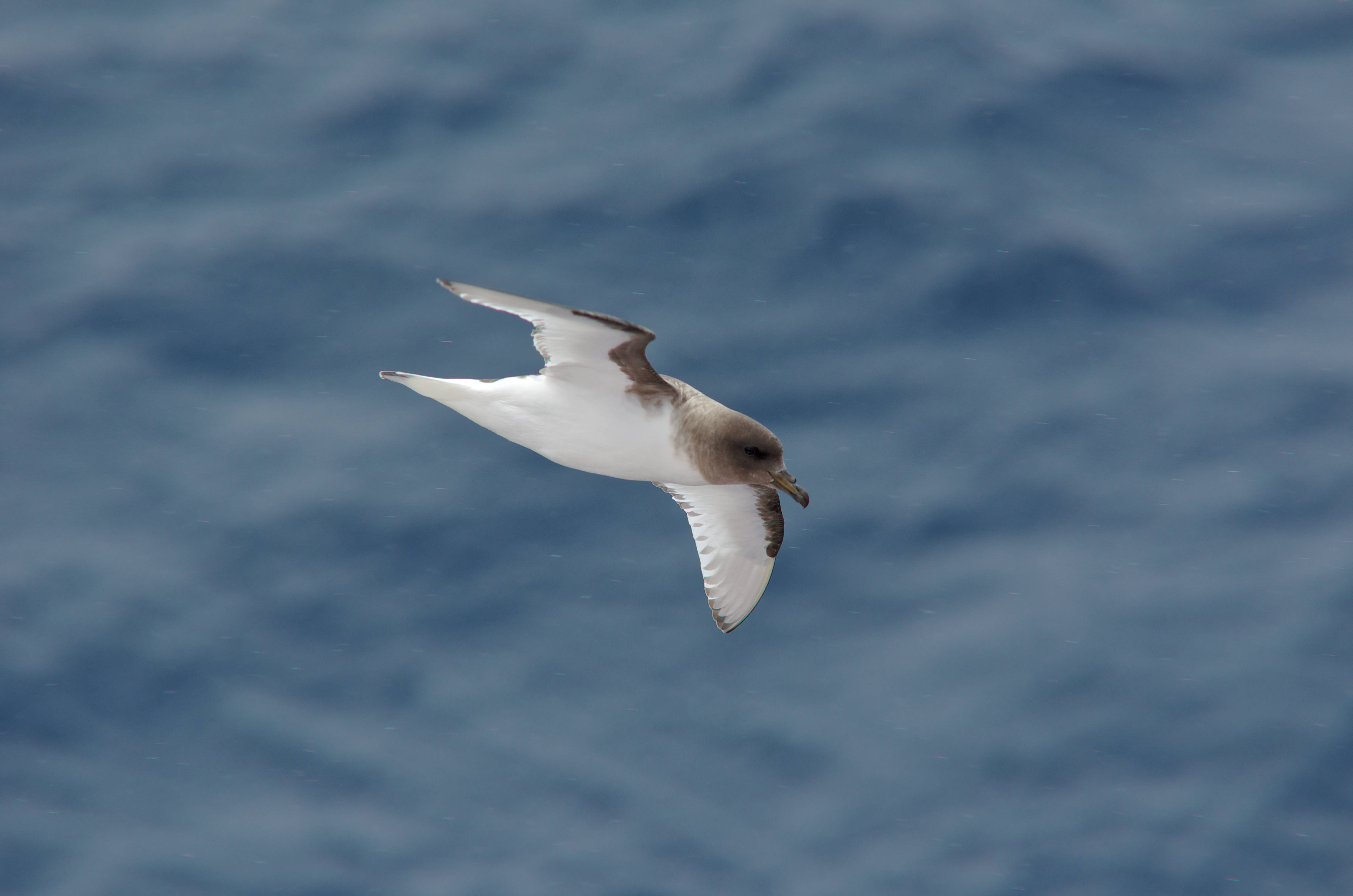 Antarctic Petrel Flying, view from bottom